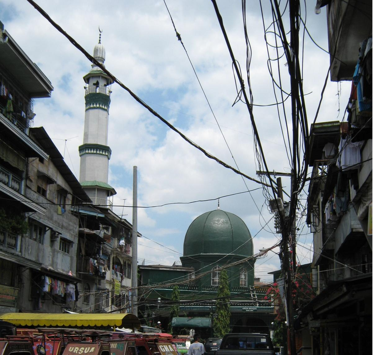 Green Mosque is found in 1964. This is mosque of Sunni Islam.